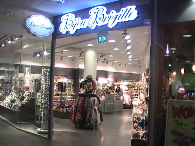 The store of Bijou Brigitte in IsoKarhu shopping center at Pori, Finland. It is a german fashion store chain.